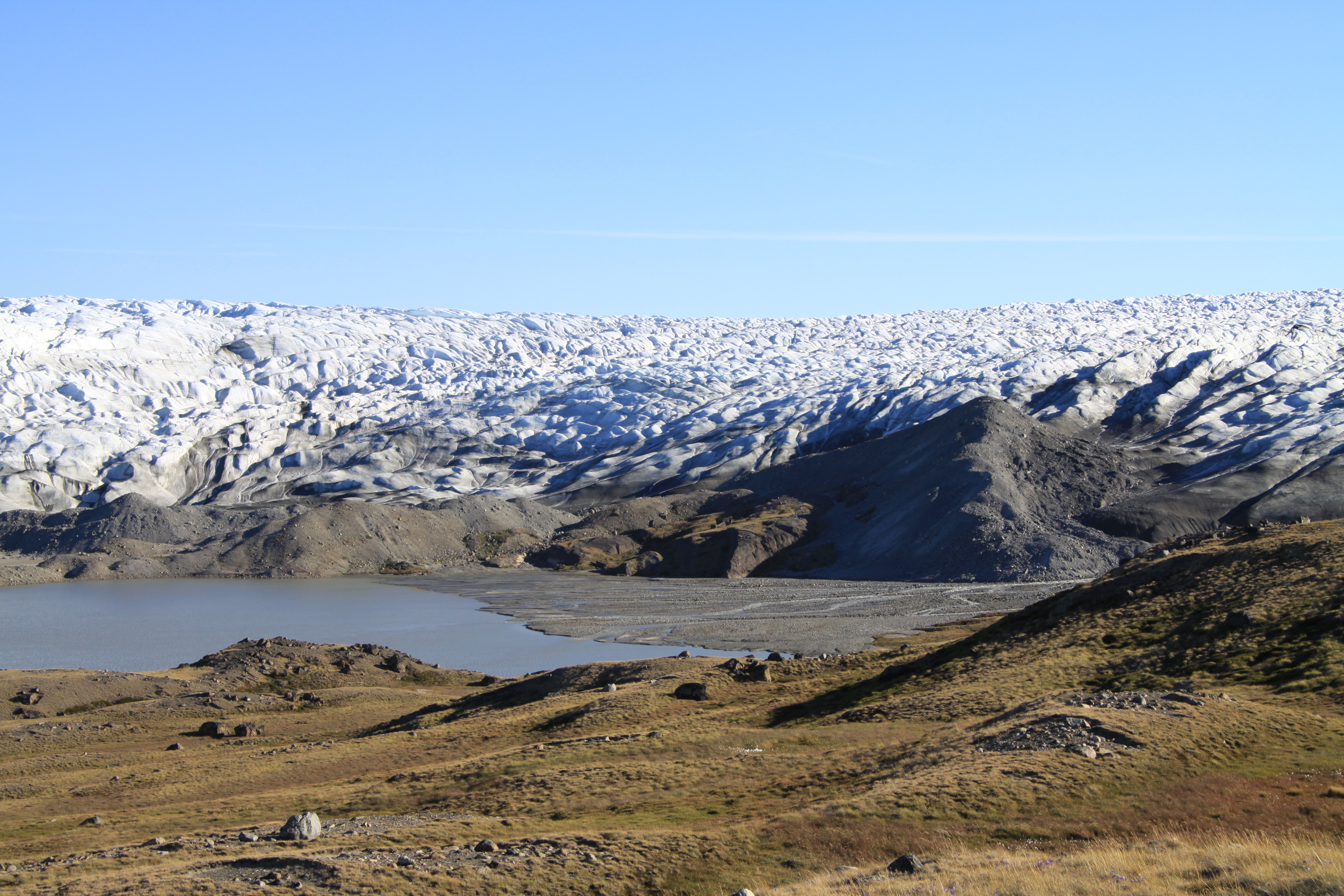 Isunnguata Sermia Glacier with moraine on right part of image north-eastern from Kangerlussuaq, Greenland in summer 2010 - Google Maps - Google Earth